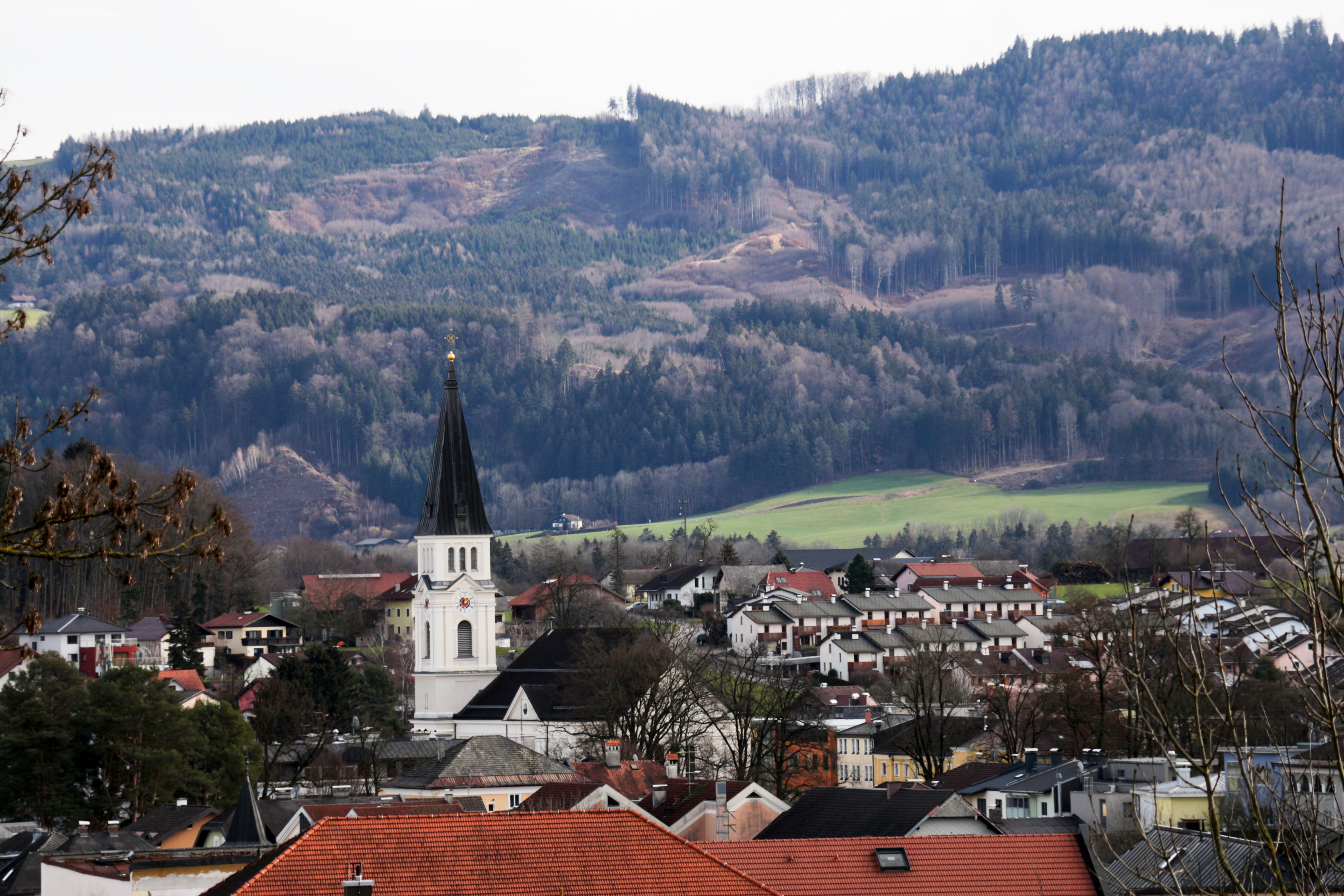 A view of Oberndorf bei Salzburg, a small town north of the Austrian city of Salzburg, situated opposite of the Bavarian town Laufen